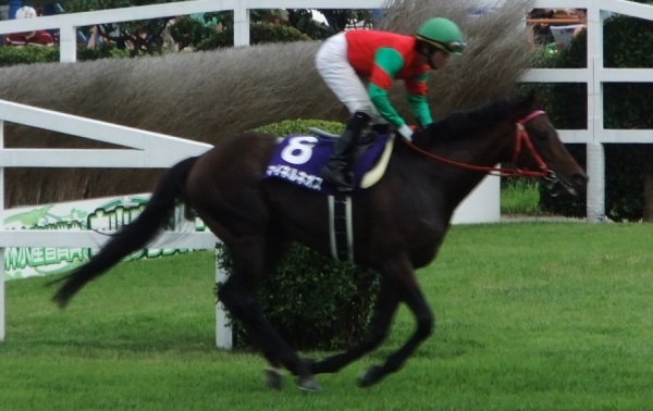 Meiner Neos